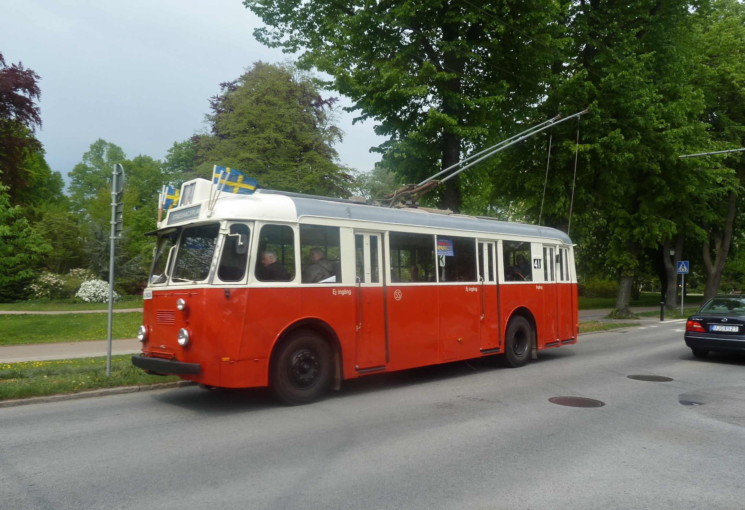 Old trolleybus SS F3 4038 from Stockholm on Eriksgatan in Landskrona, during a trolleybus festival in May 2011. It was built in 1949 by Scania-Vabis, with a body by Hägglunds. It is owned by the Stockholm Tramway Museum, but it visited the Landskrona trolleybus system in May 2011 for this special event.